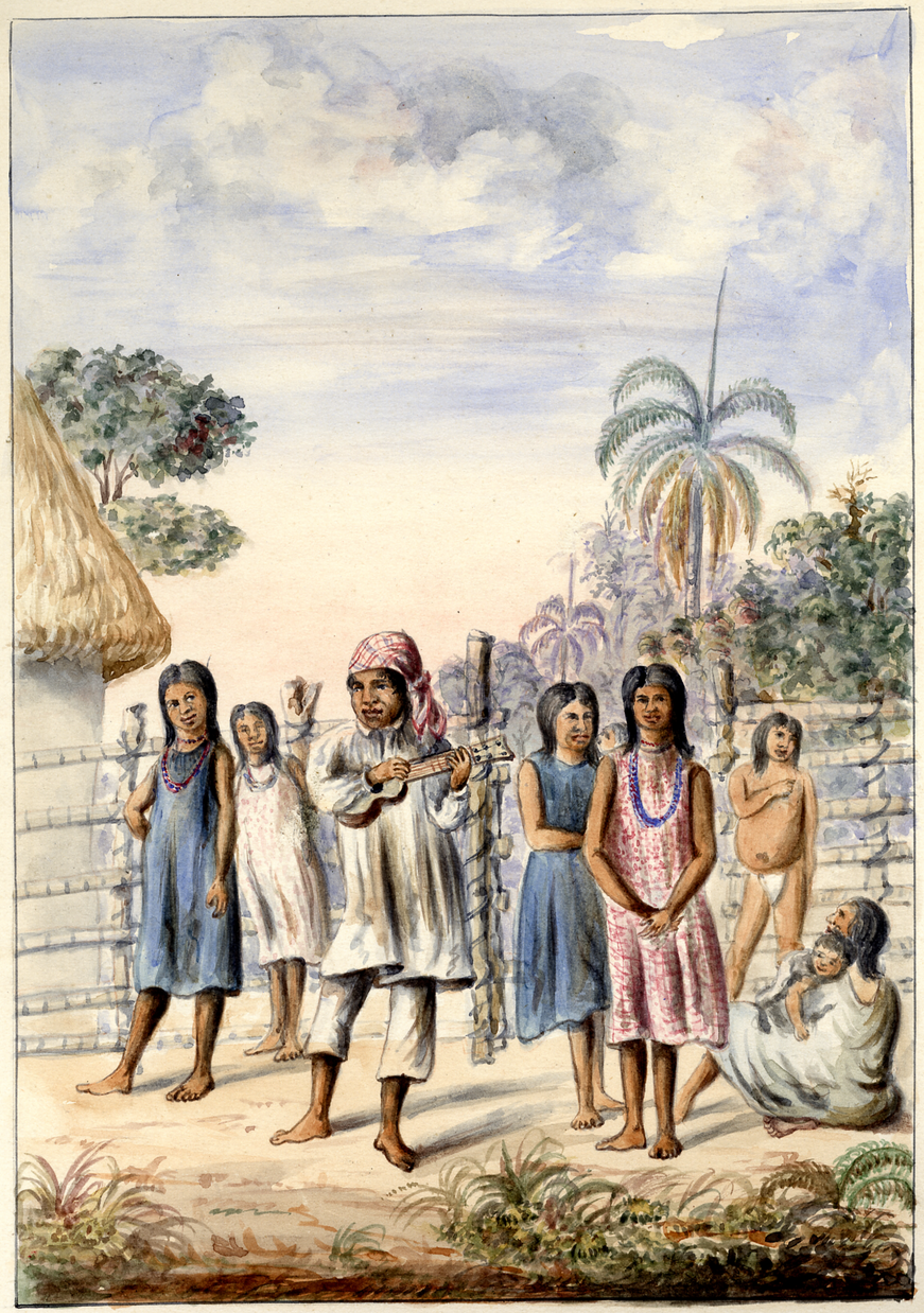 Saliva Indians Dancing, Province of Casanare